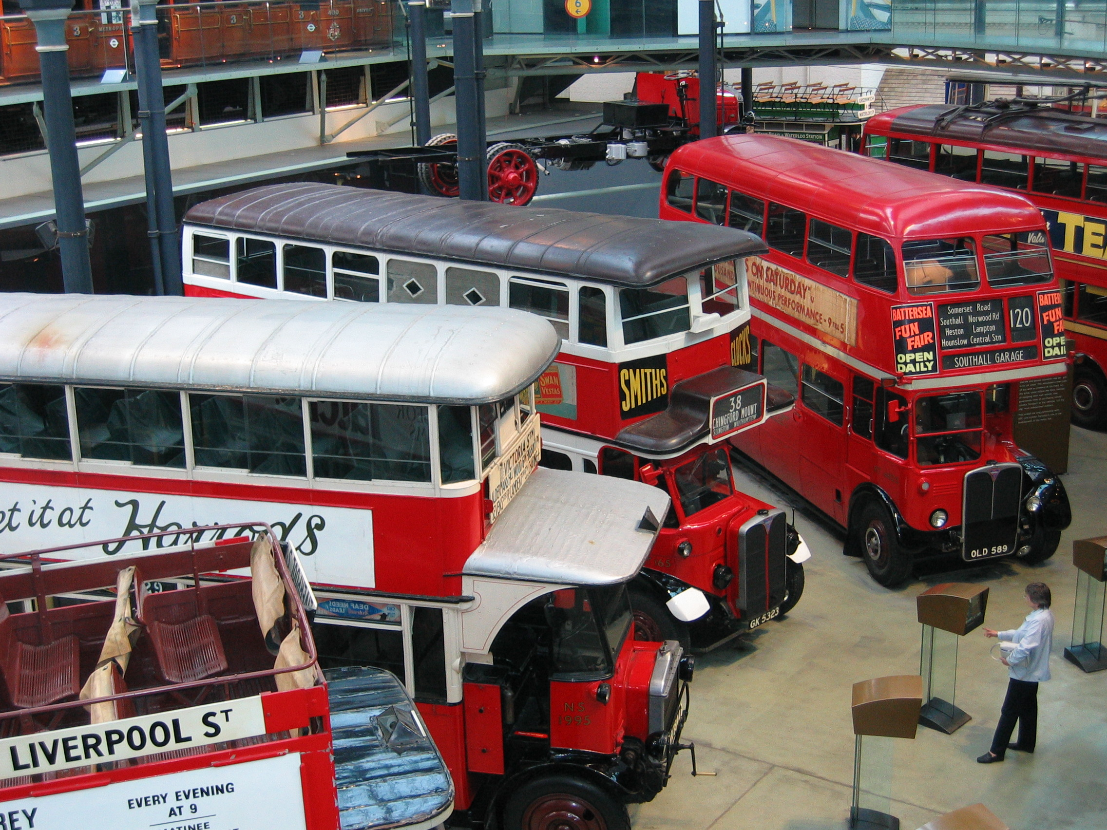 Interior of the London Transport Museum in 2004.